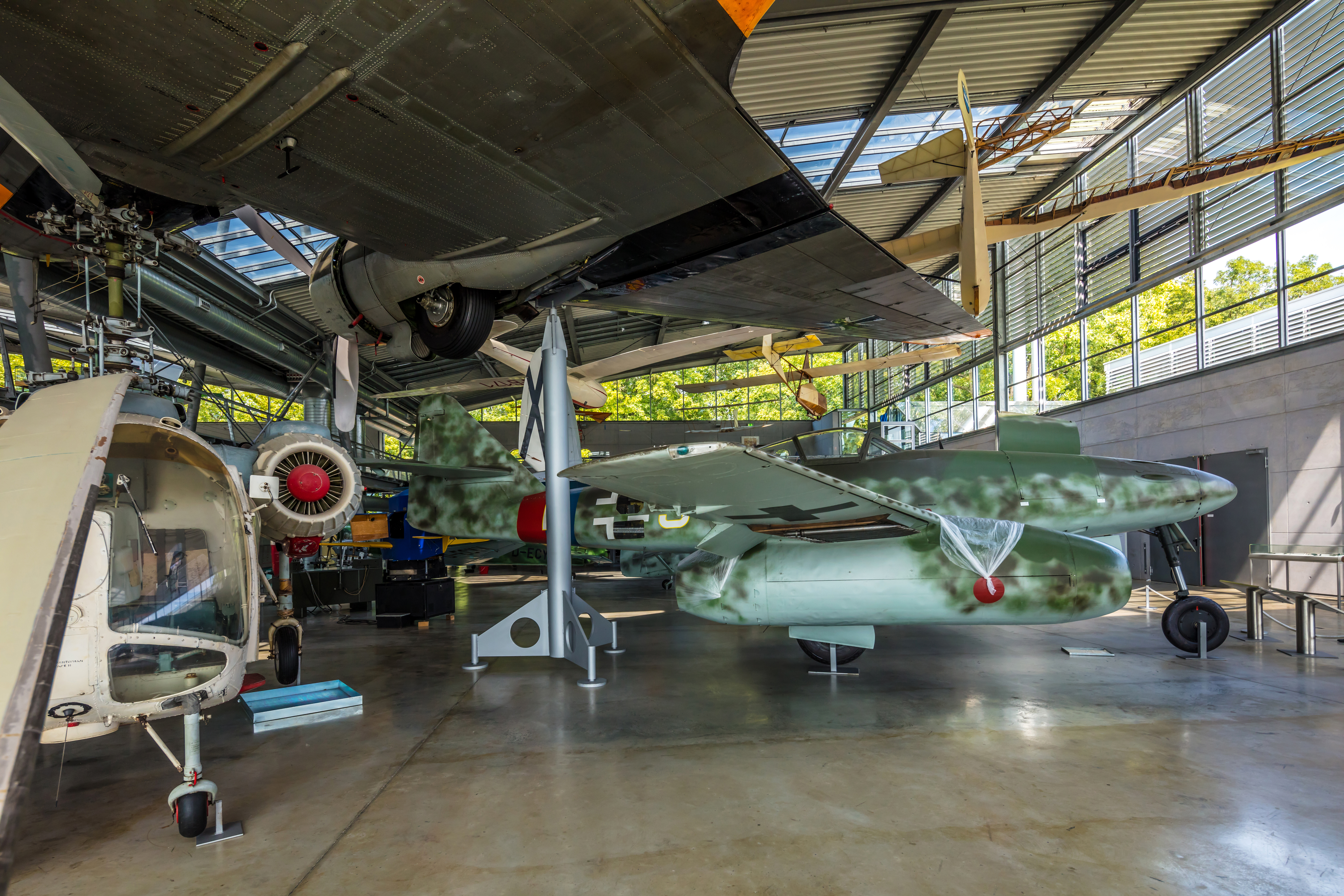 Messerschmitt Me 262 500071 . This aircraft is temporarily exposed to the Deutsches Museum Flugwerft Schleißheim for restoration work, Munich (08/2018).